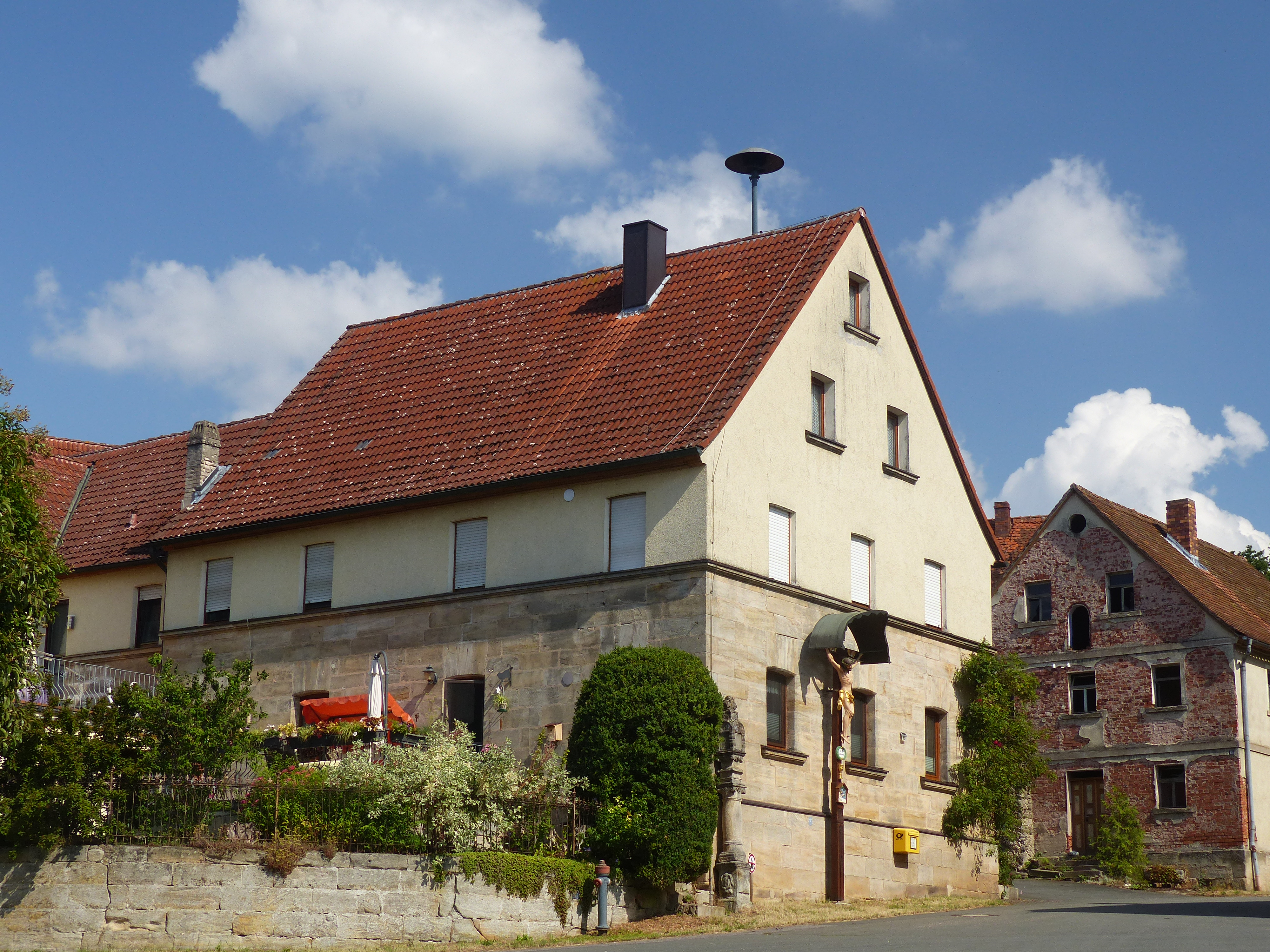 A farmhouse in the village Elsenberg, a district of the municipality of Pinzberg.